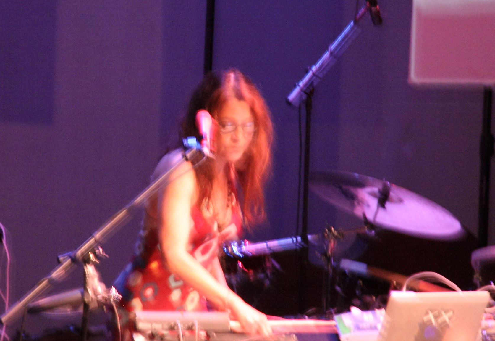 Amy X Neuberg at the Brava Theater.